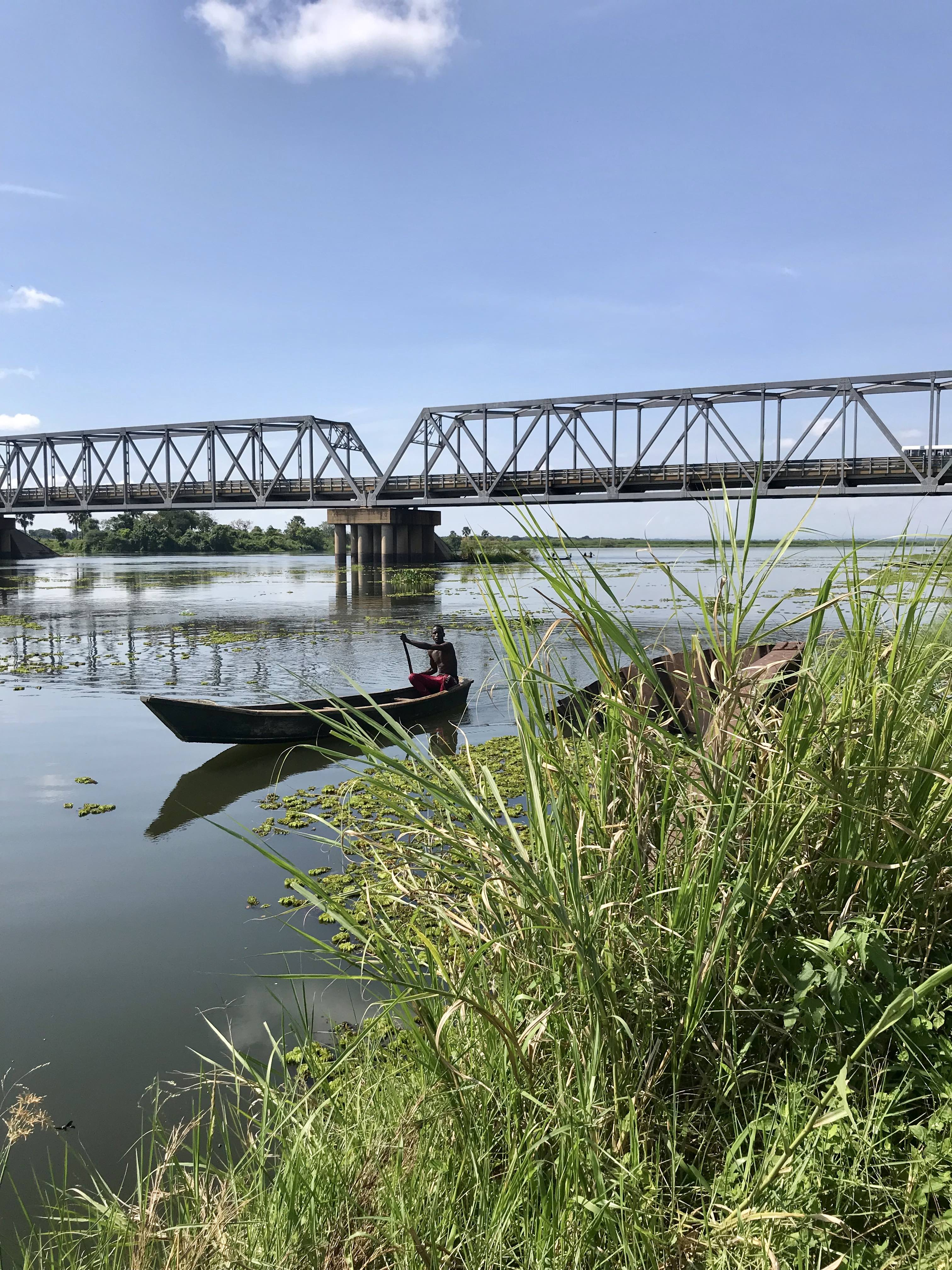 A man pedals through the waters of the Albert Nile, in Northern Uganda. This is an image with the theme "Africa on the Move or Transport" from: Uganda